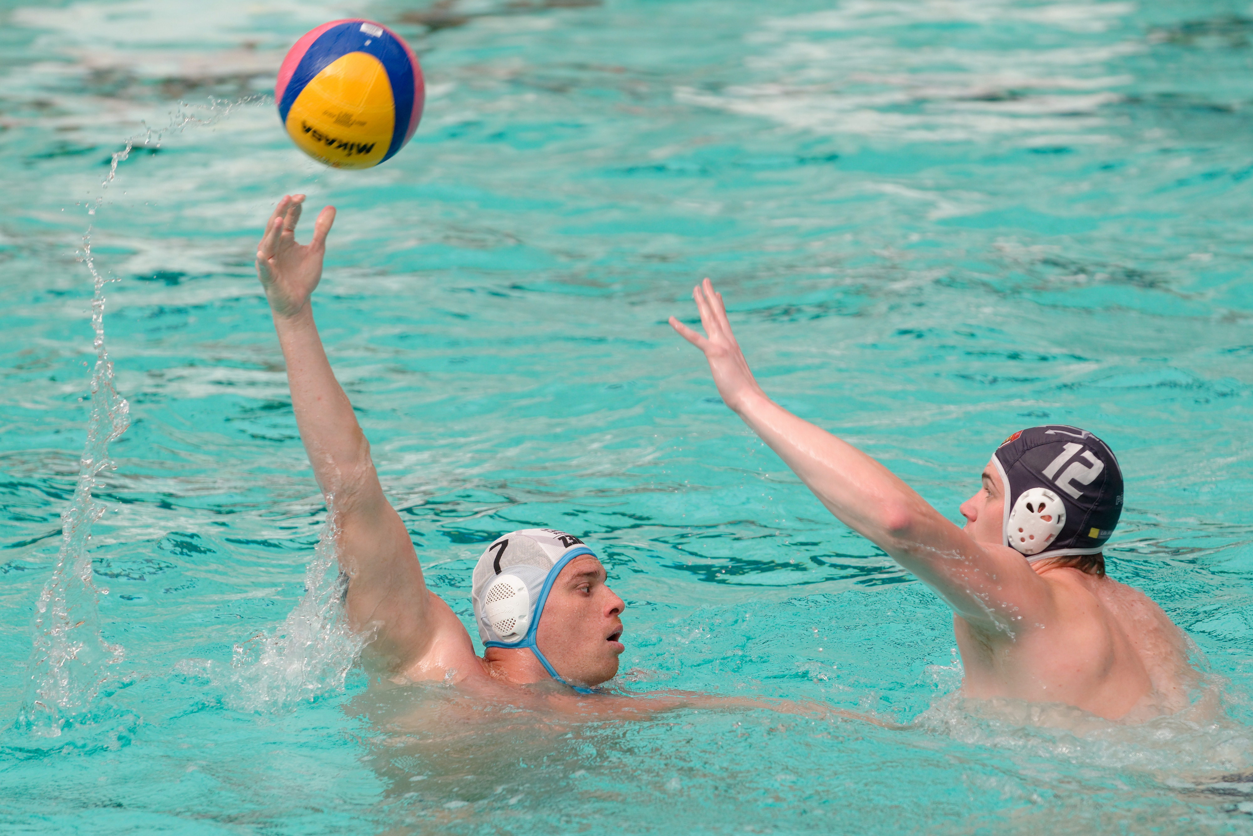 Montpellier WP's Mathieu Peisson (L) throws a pass while EN Lille Métropole's Aurélien Clay (R) attempts to block in their quarter-final of the 2014 League Cup at the Georges Vallerey swimming pool in Paris.